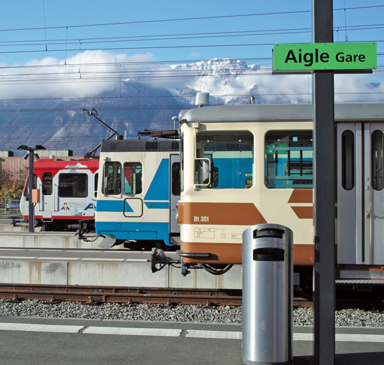 trains in TPC Aigle station